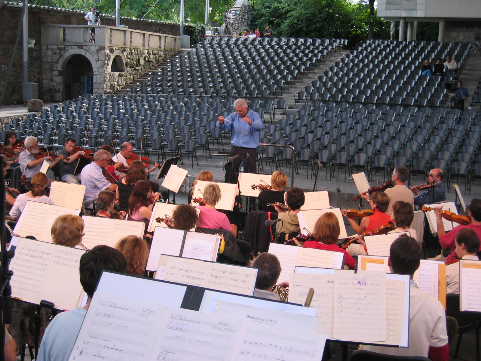 Rehersal with RTV Slovenia Symphony orchestra and conductor David DeVilliers at Križanke open theater, Ljubljana